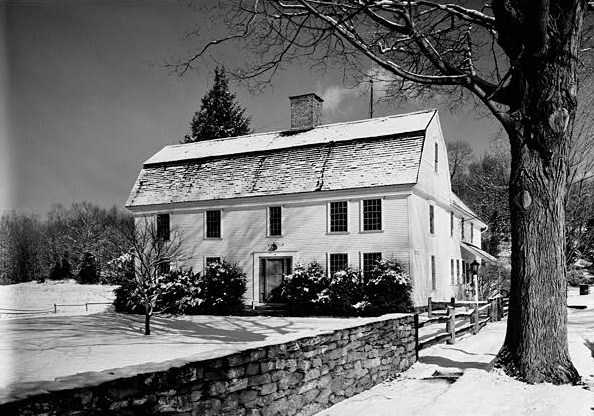 Bradford-Huntington House, 16 Huntingtown Lane, Norwichtown (New London County, Connecticut) cropped Object location41° 32′ 52″ N, 72° 05′ 33″ W